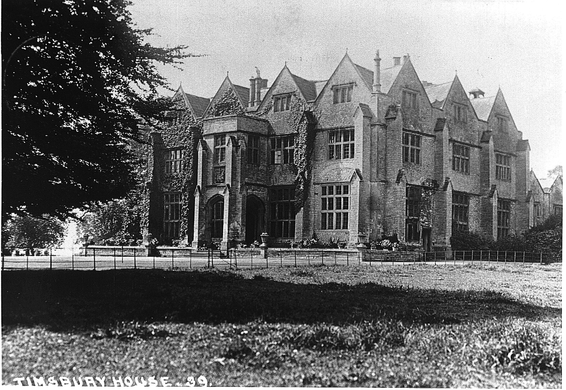 Timsbury Manor house viewed from The Avenue. This house was demolished in 1961. It was formerly the ancestral home of the Sambourne family and originates from the 15th Century.